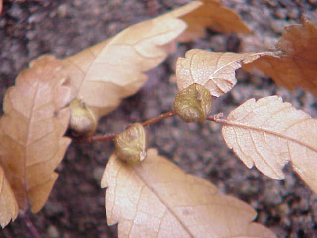 Species: Zelkova carpinifolia Family: Ulmaceae Image No. 1